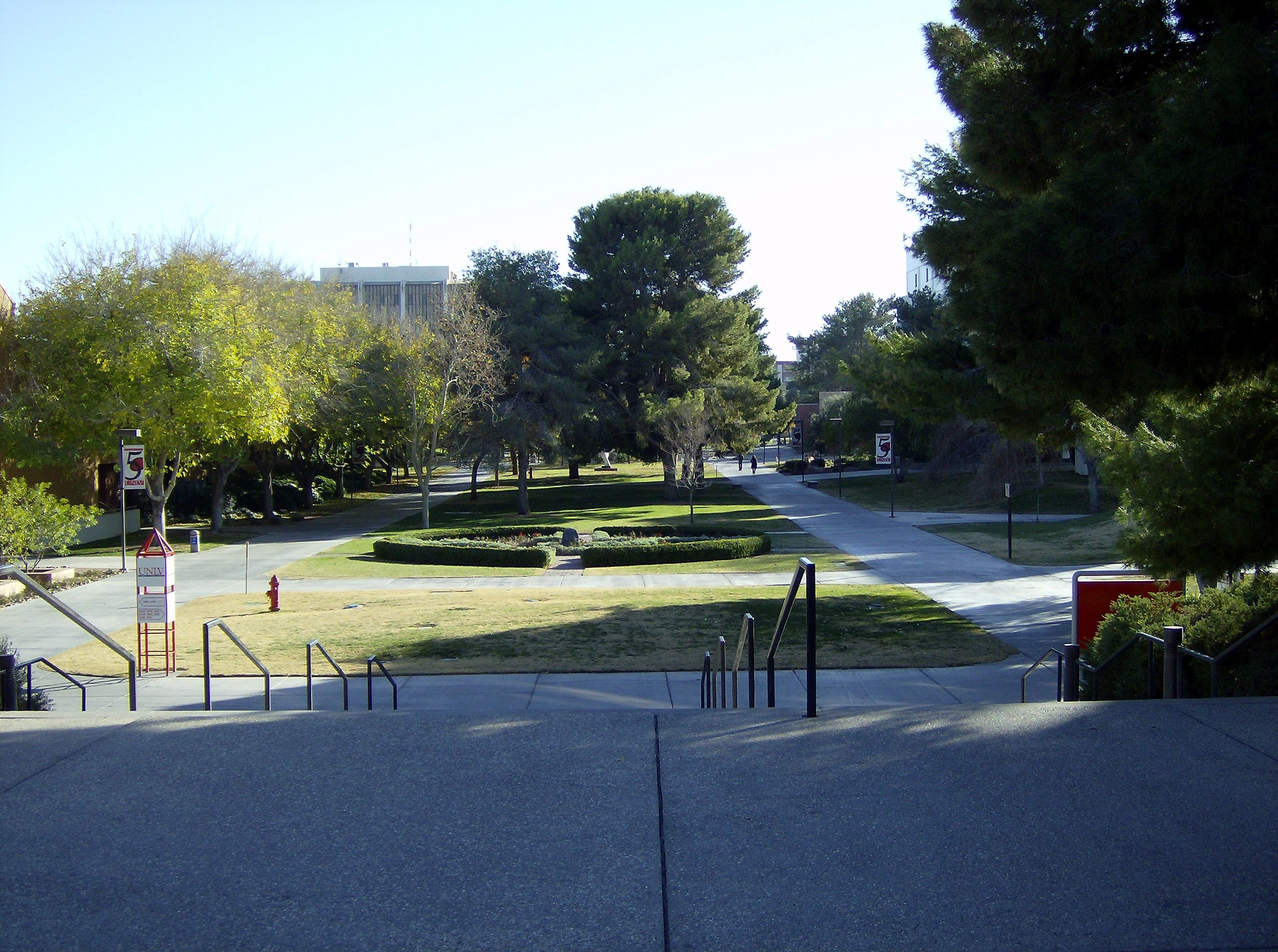 UNLV campus Looking to Student Union building